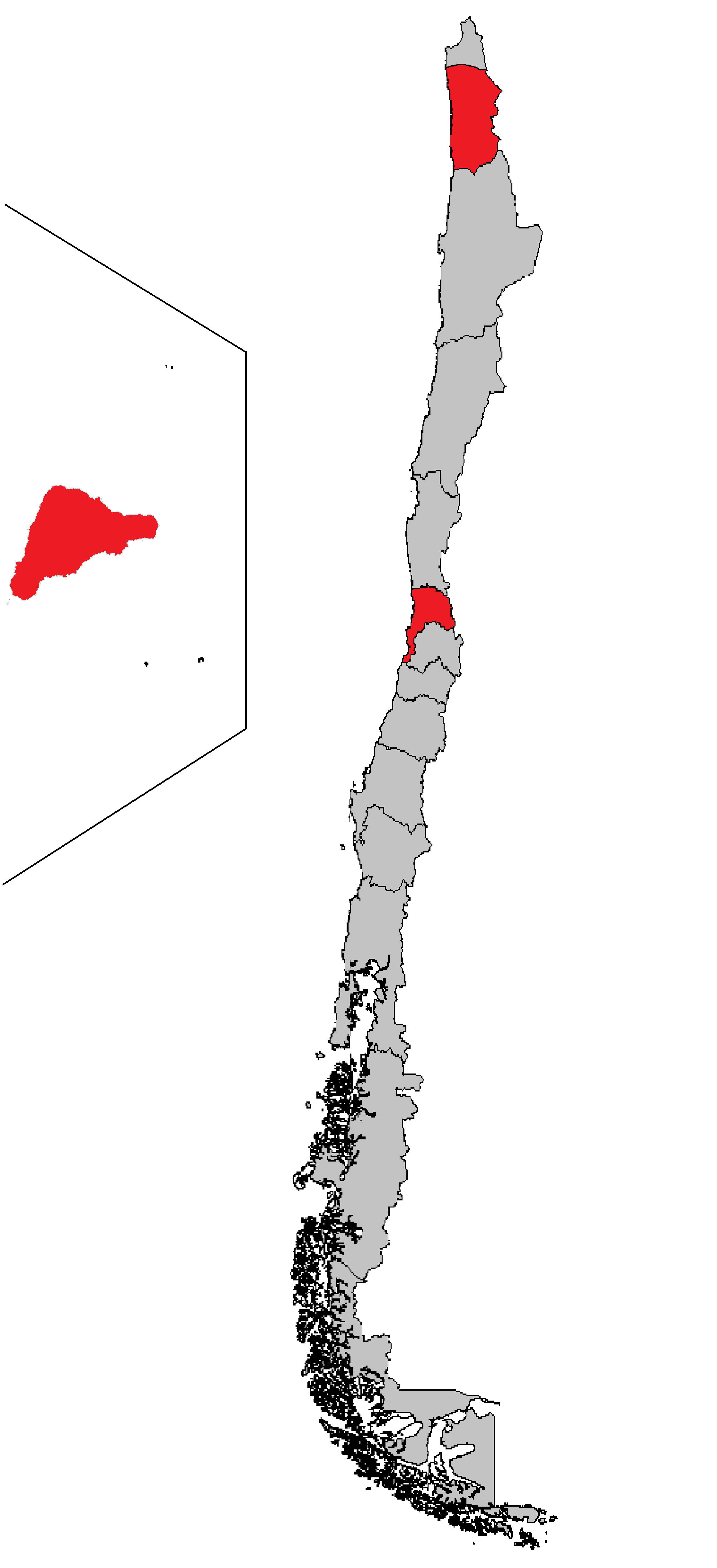 Dengue epidemic 2019-2020 in the Republic of Peru